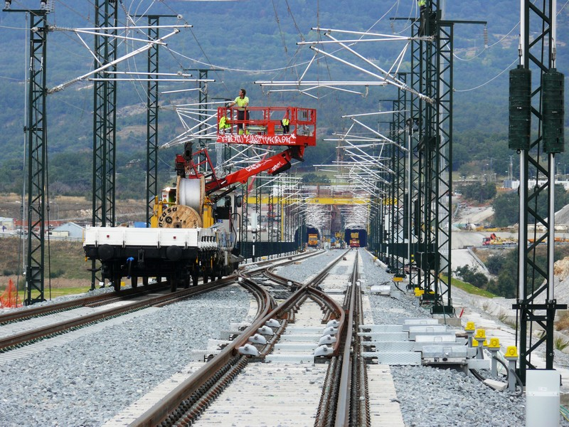 A railway switch to change tracks, near the train station of Miraflores (which is mainly used for slower trains waiting for faster trains to go by, maintenance vehicles and for emergency evacuations. Track direciton: Valladolid.